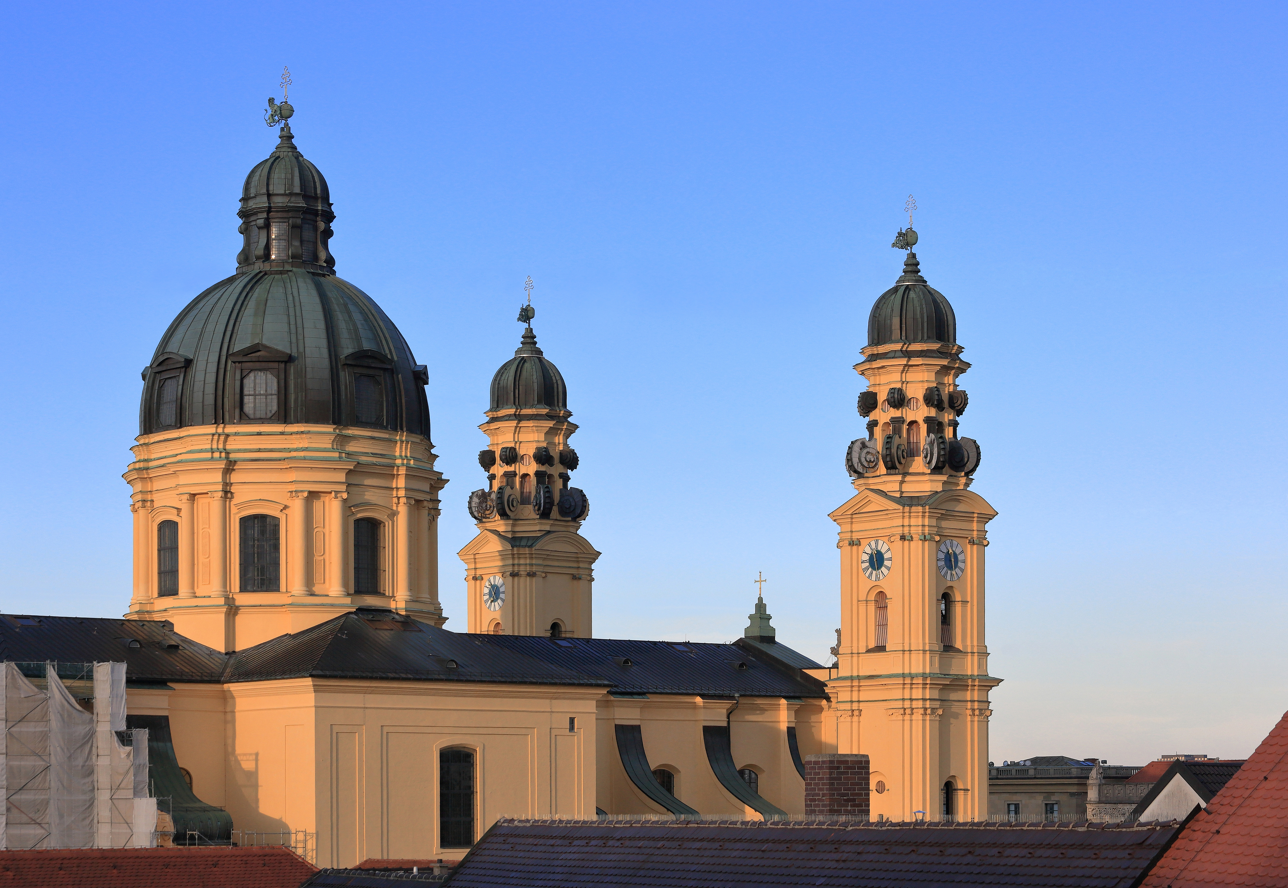 Theatine Church, Munich, as seen from S - a rare view taken atop the "Lovelace", a temporary pop-up project in the former HVB Forum, Kardinal-Faulhaber-Straße 1.